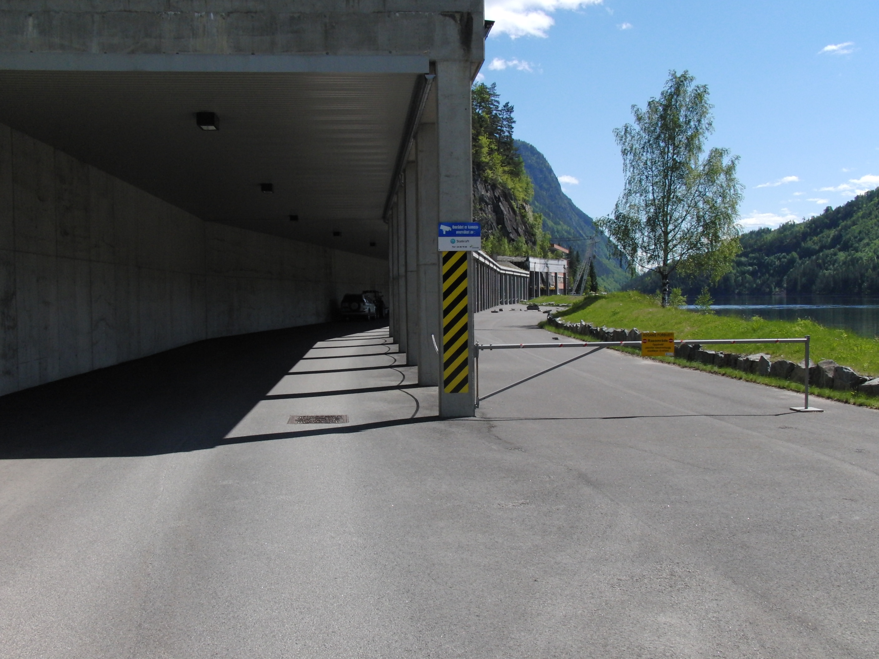 The access road to Tokke Hydroelectric Power StationNorsk bokmål: Tokke kraftverk, innkjørsel